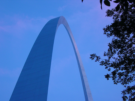 The St. Louis Arch